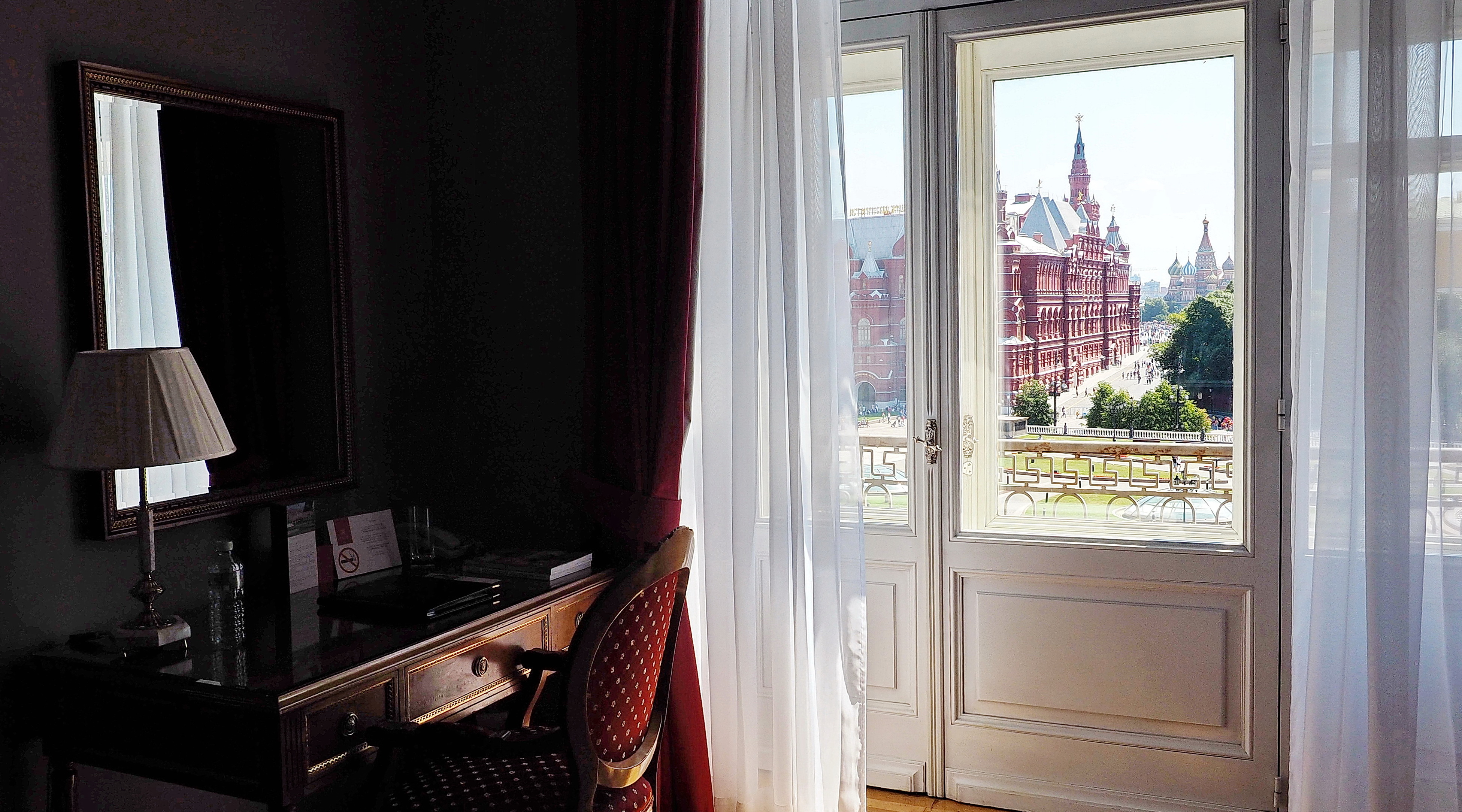 Hotel National, Moscow. View of Manezhnaya Square and Red Square from the upper floor room (only the upper floor has a continuous balcony with a band of cast-iron railings, visible just beyond the window.